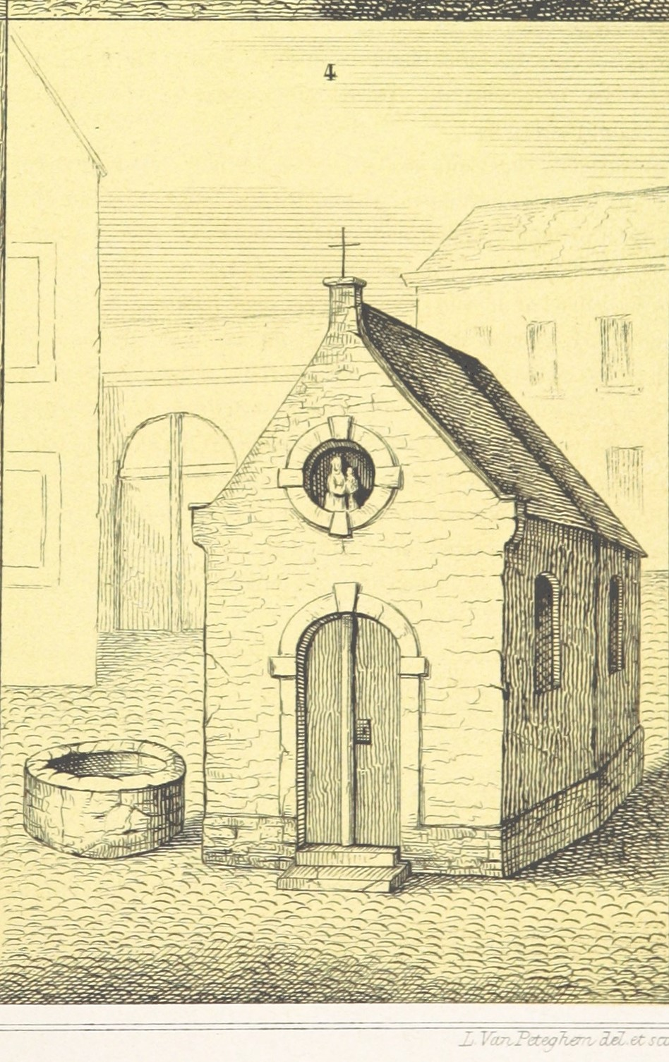 former Saint-Anna Chapel in Leuven (Belgium), in the street named Tiensestraat